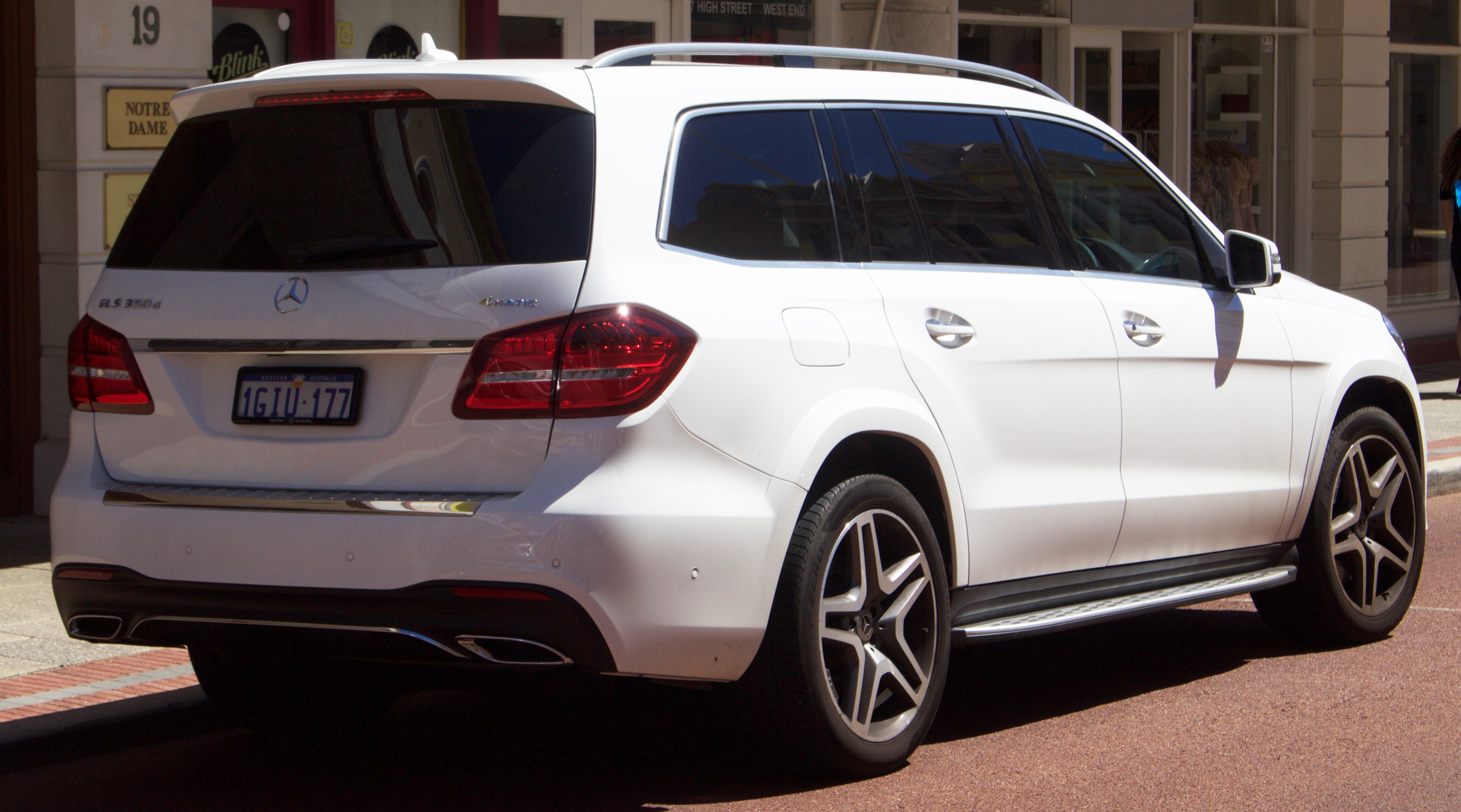 2017 Mercedes-Benz GLS 350d (X 166) 4MATIC wagon. Photographed in Fremantle, Western Australia, Australia.